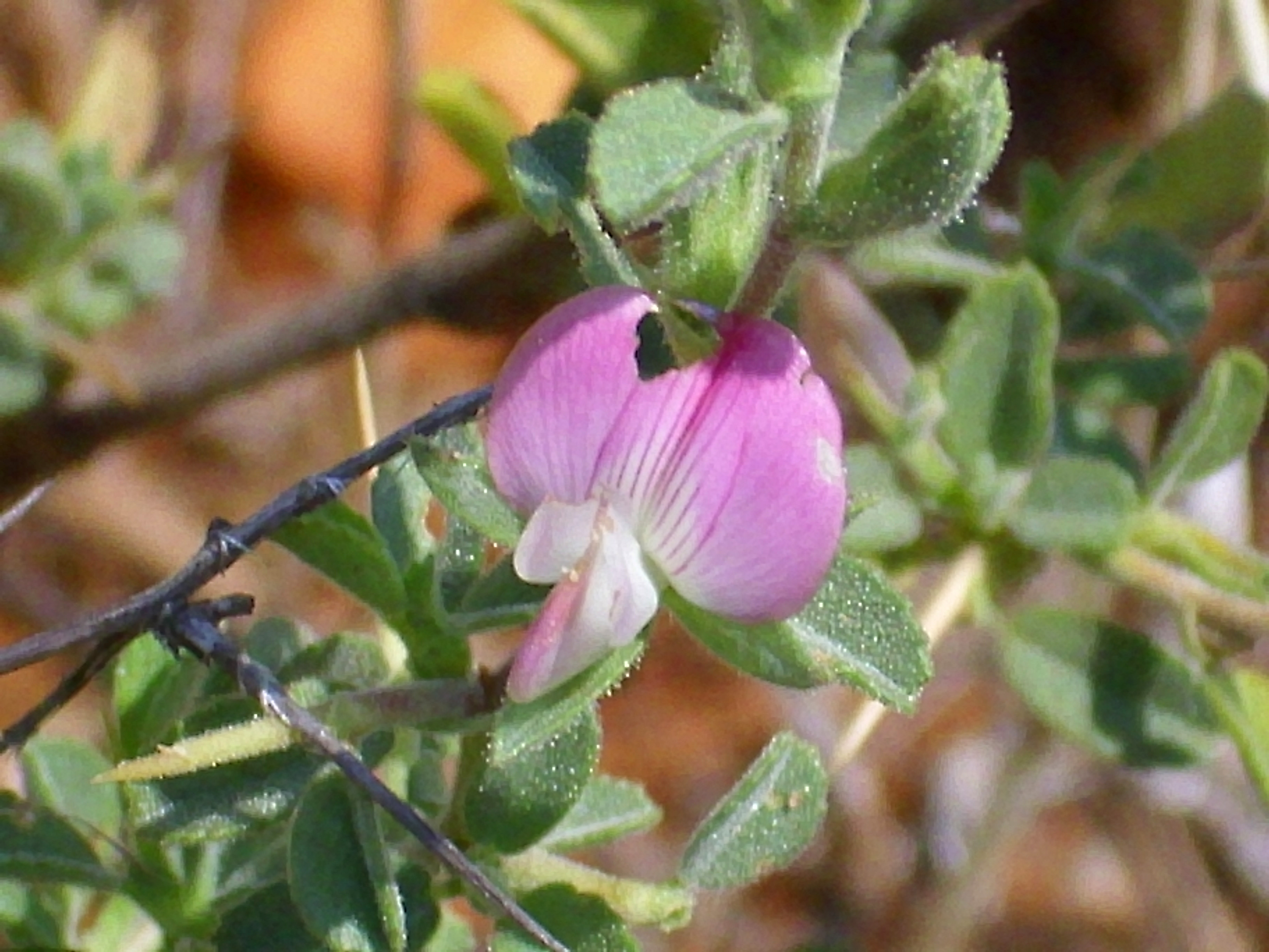 Ononis spinosa subsp. australis flower close up, Dehesa Boyal de Puertollano, Spain